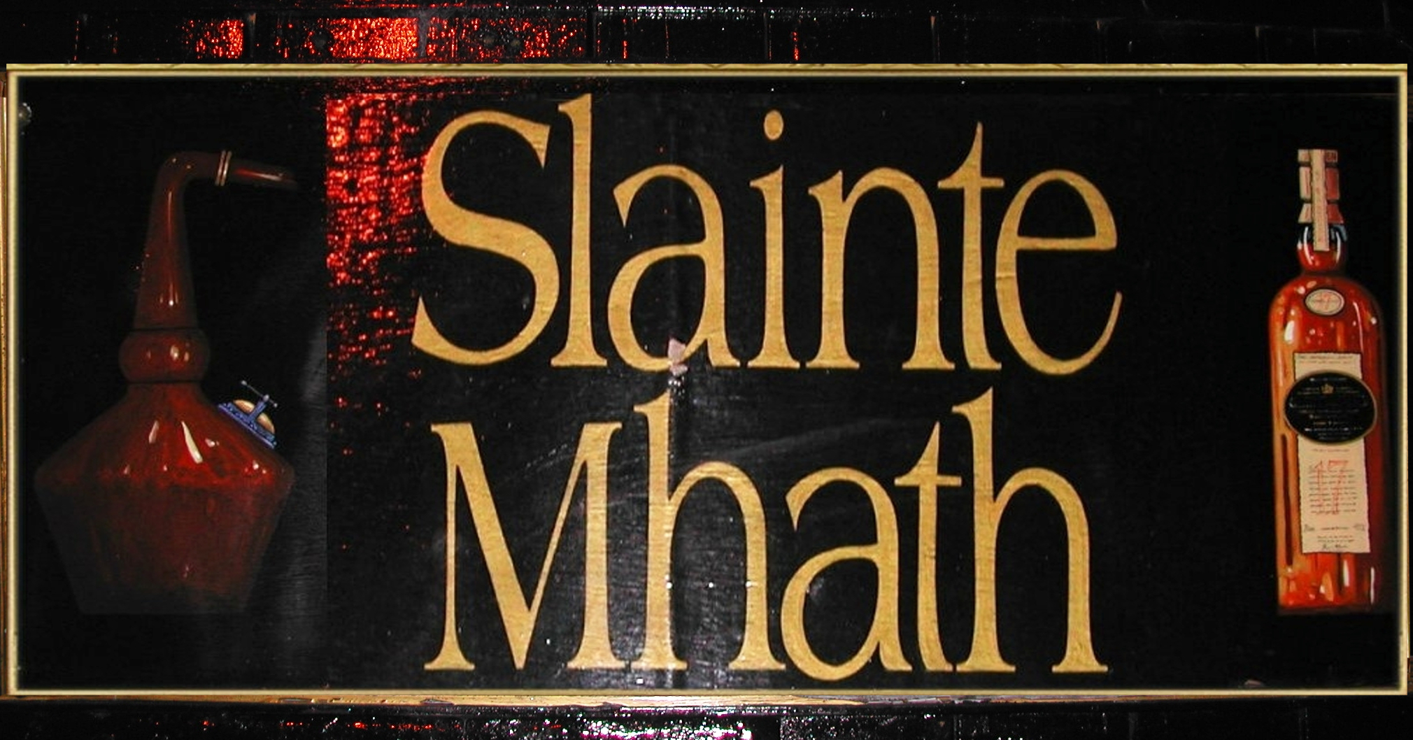 "Sláinte Mhath" at Glengoyne Distillery, Dumgoyne (2003).